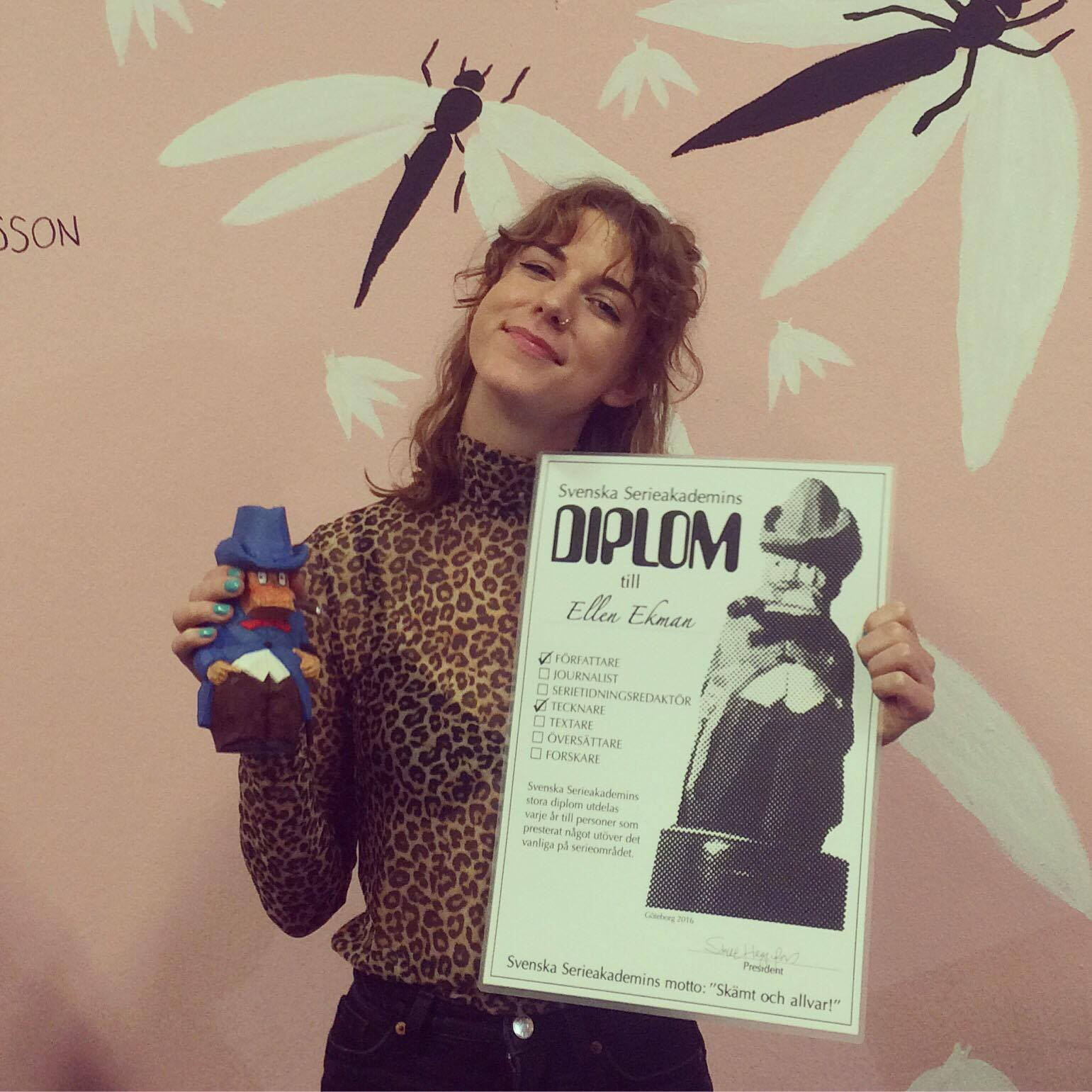 Ellen Ekman